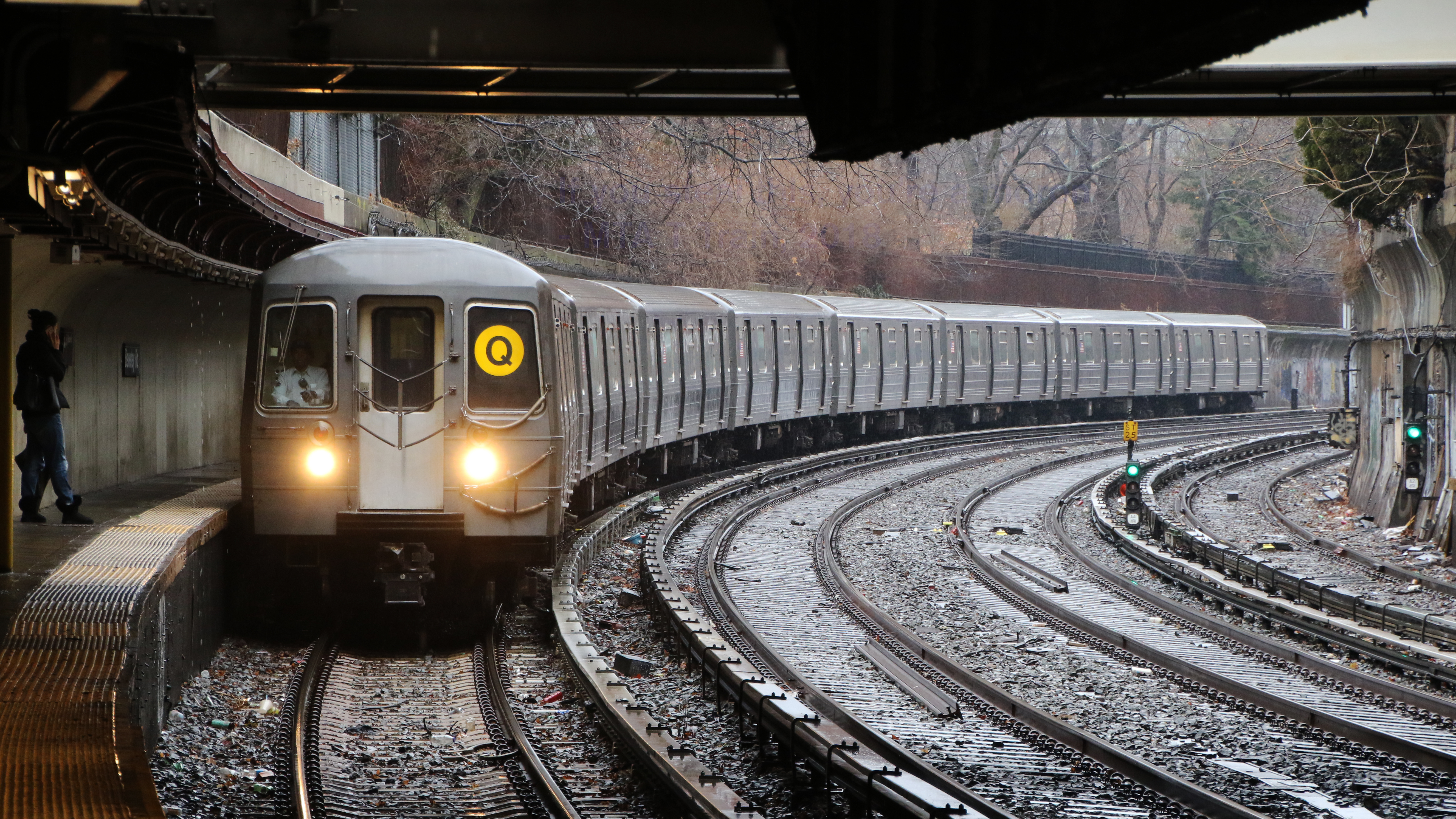 Coney Island-bound MTA NYC Subway Q train of Kawasaki Heavy Industries R68A cars arriving at Beverley Rd.